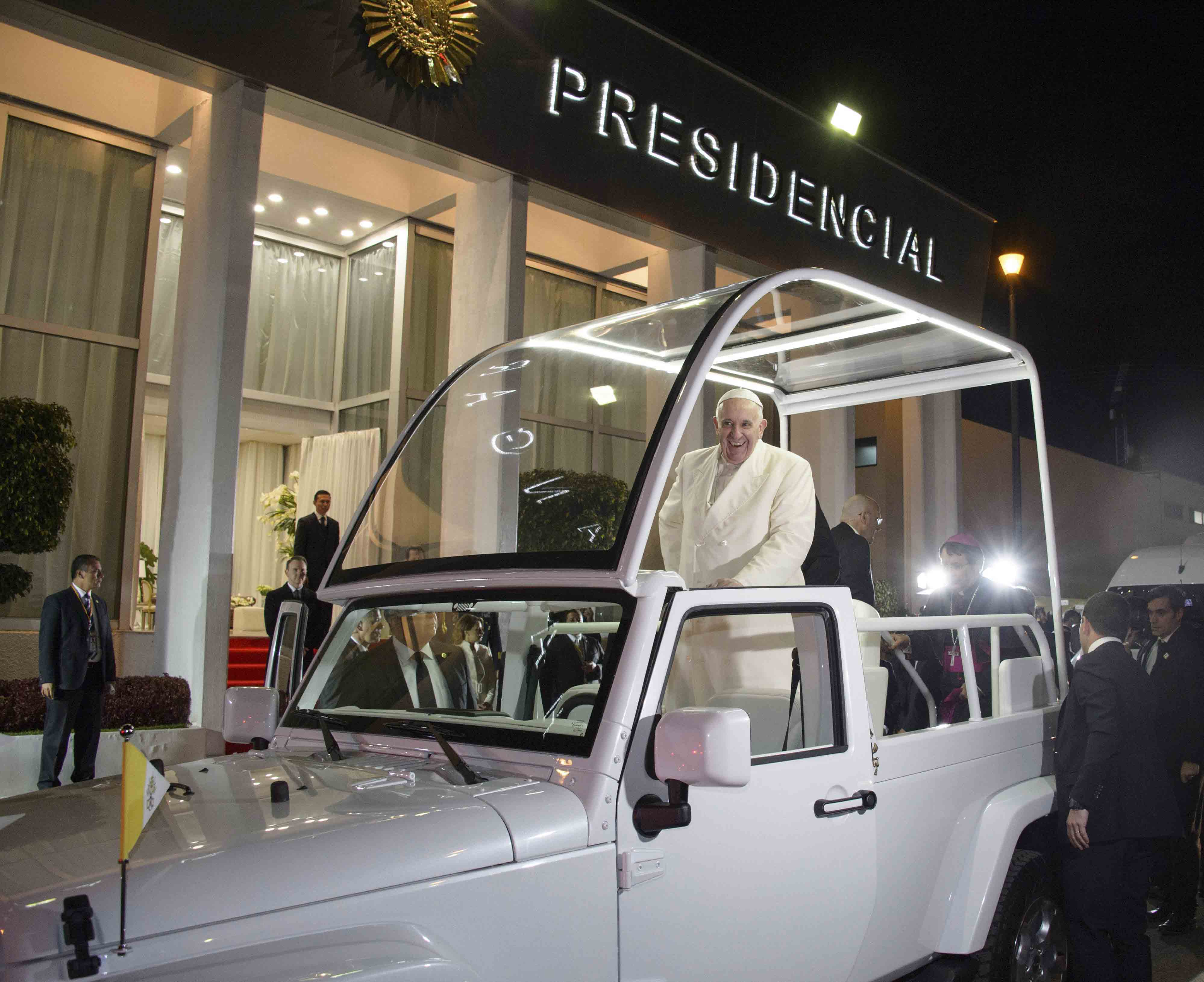 12 de febrero del 2016